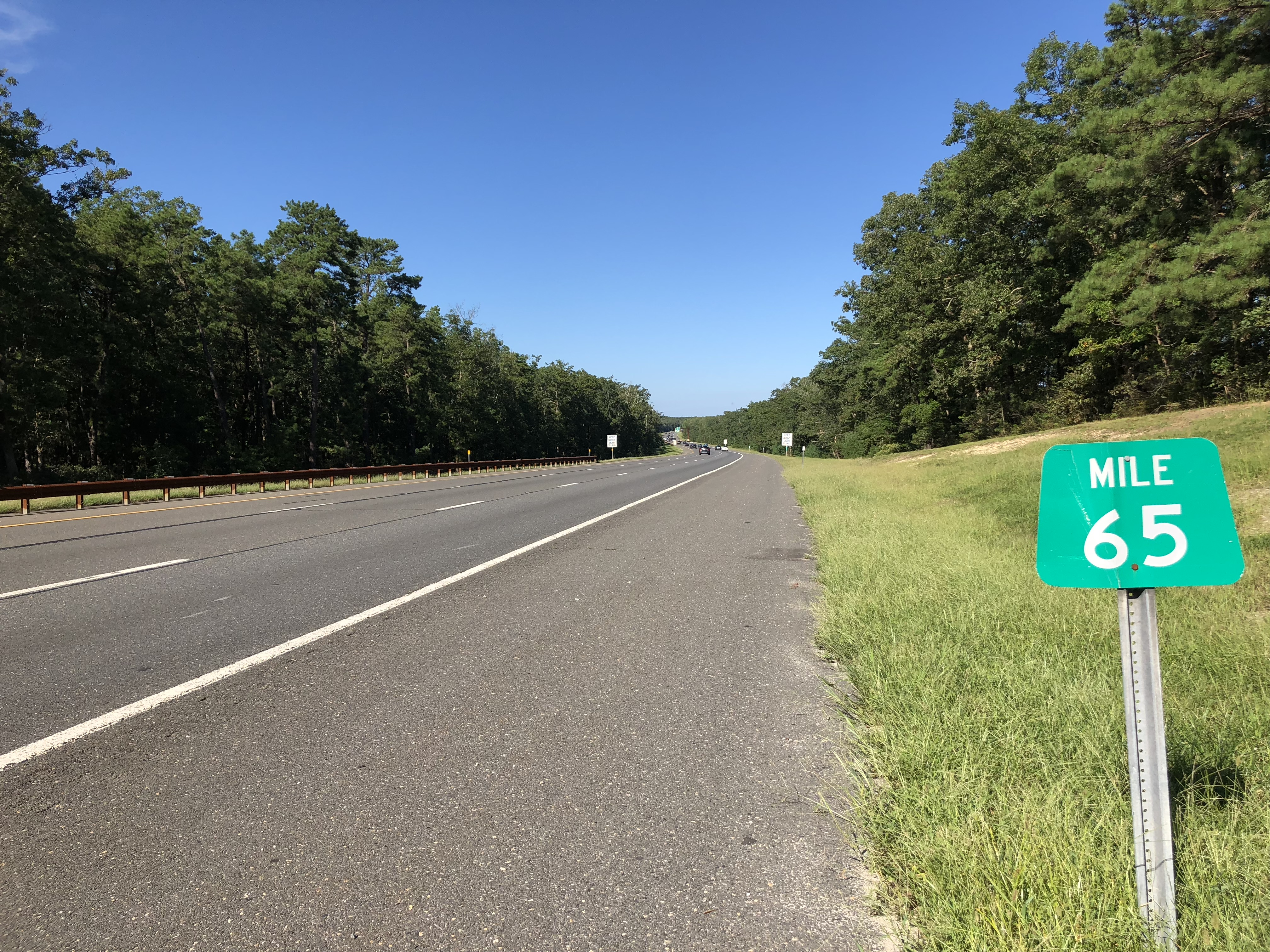 View north along New Jersey State Route 444 (Garden State Parkway) between Exit 63 and Exit 67 in Stafford Township, Ocean County, New Jersey